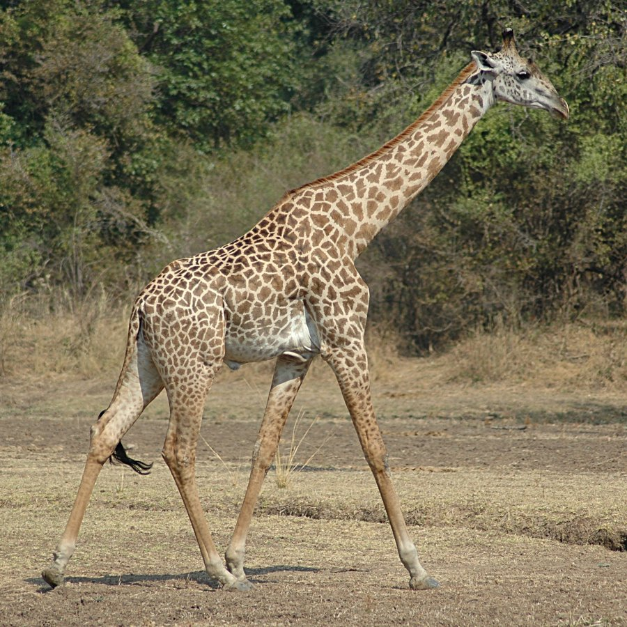 Thornicroft's giraffe, South Luangwa NP, Zambia -- by User:Jpatokal